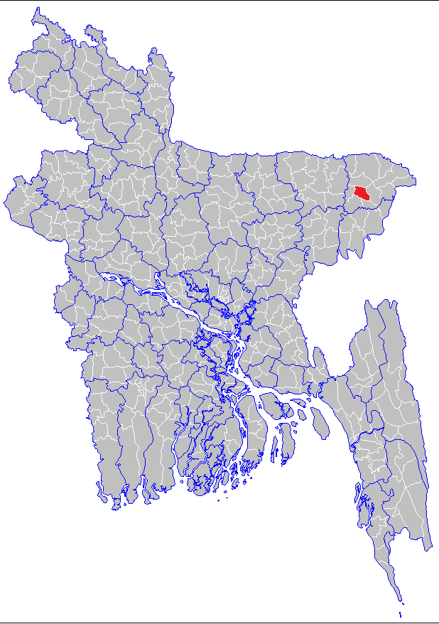 Location of Dakshin Surma in Bangladesh